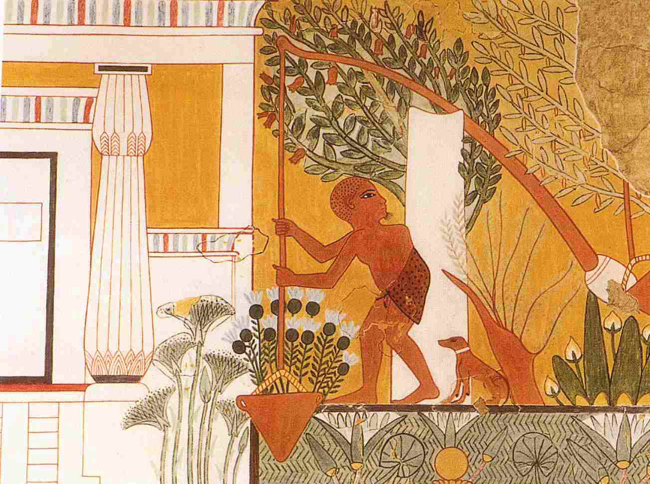 Scene of gardener using a Shaduf, Tomb of Ipuy at Deir-el-Medina, West bank of Thebes, TT217.